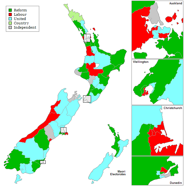 Map of New Zealand's 1928 elections.